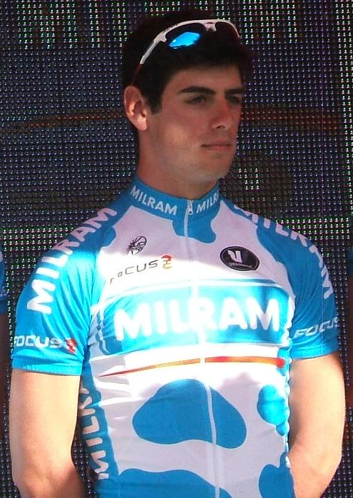 Named cyclist at the en:2009 Tour Down Under team presentation